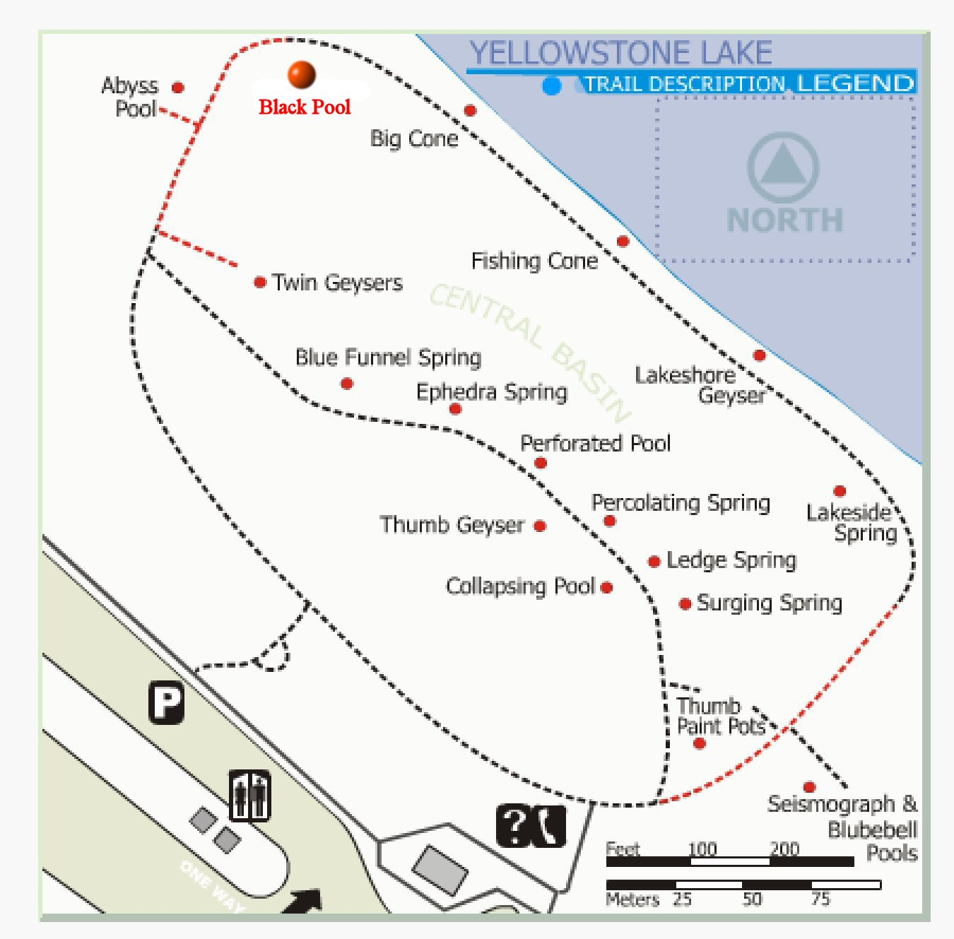 West Thumb Geyser Basin, Yellowstone National Park, Wyoming with Black Pool annotated